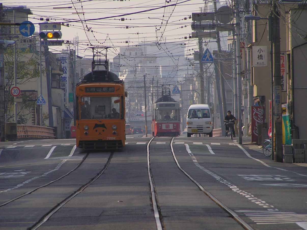 Tramway at Okayama city